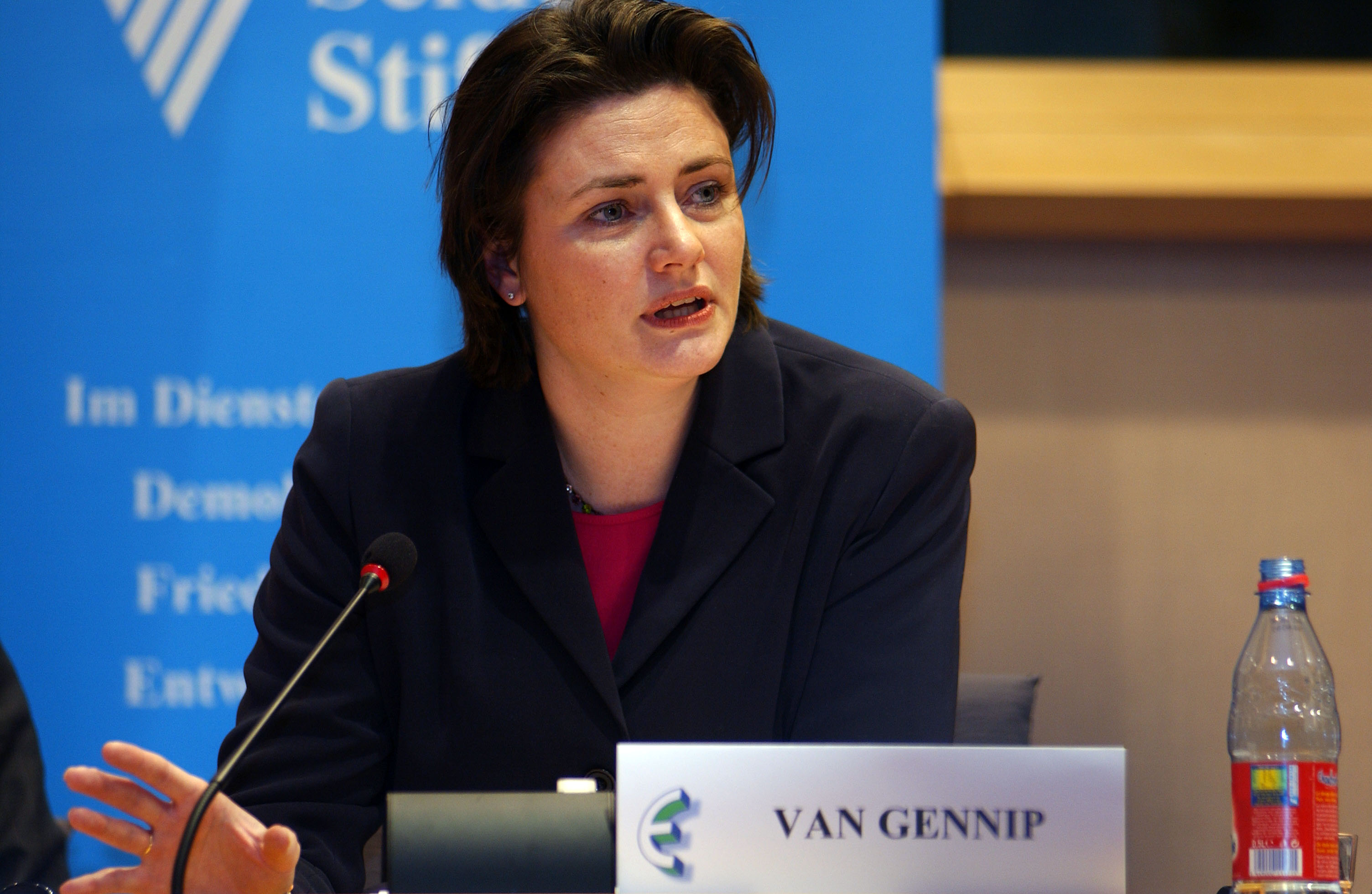 EPP Conference on Lisbon Strategy 25 November 2004